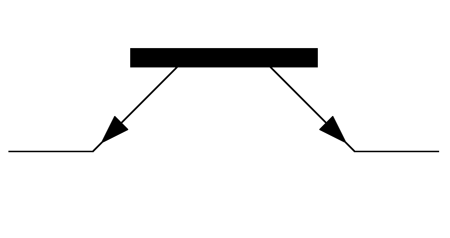 Standard symbol for a three-layer DIAC